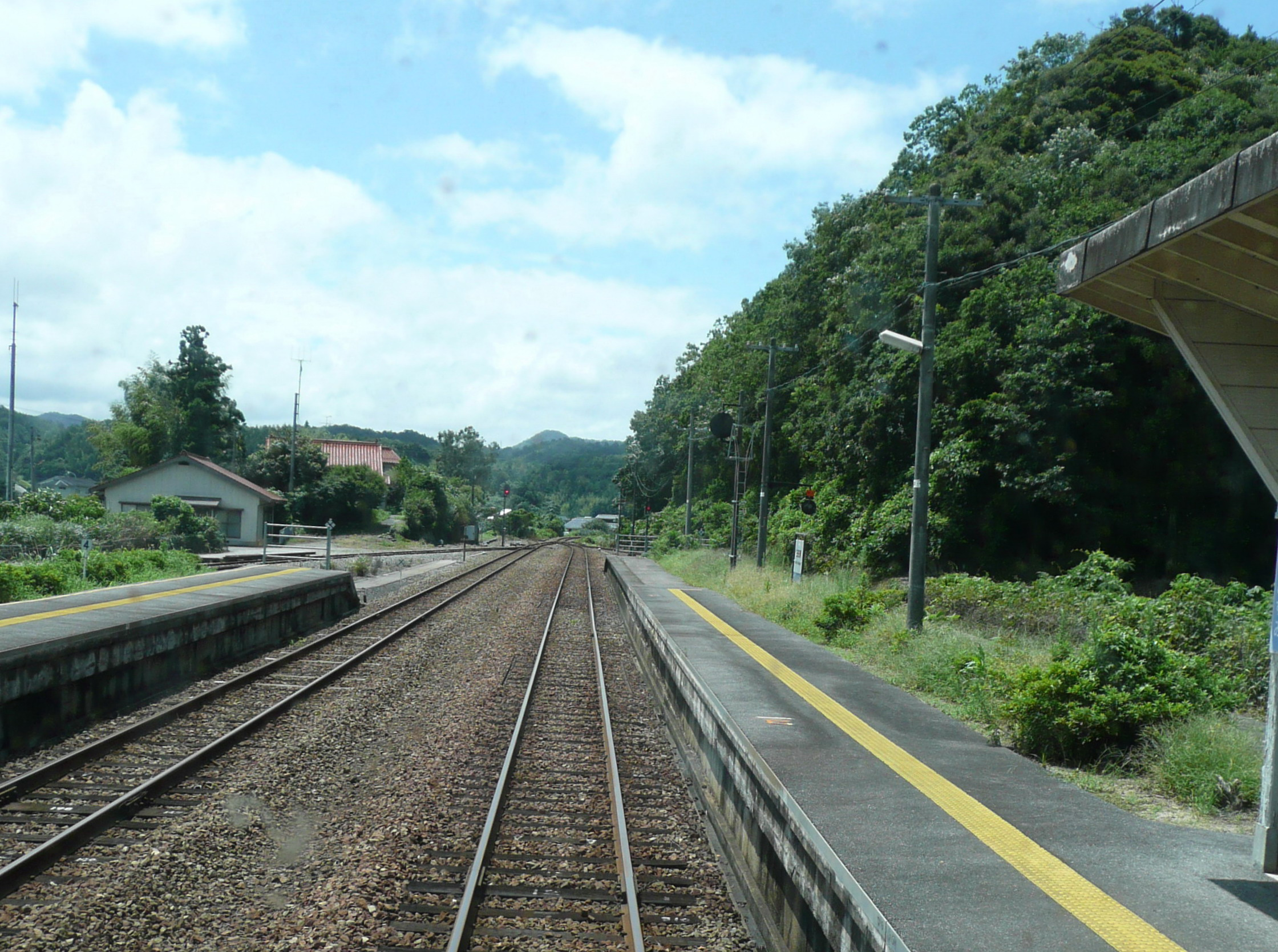 Miho-Misumi Station platform for Masuda